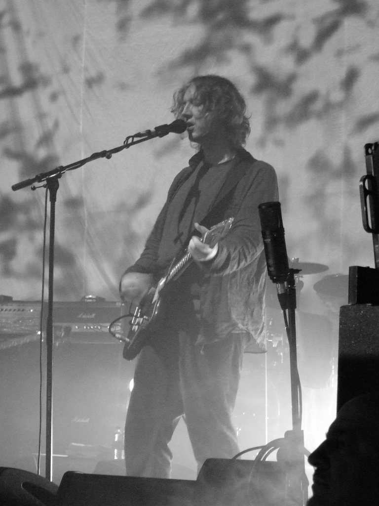 Kevin Shields of My Bloody Valentine performing @ The Roundhouse in 2008